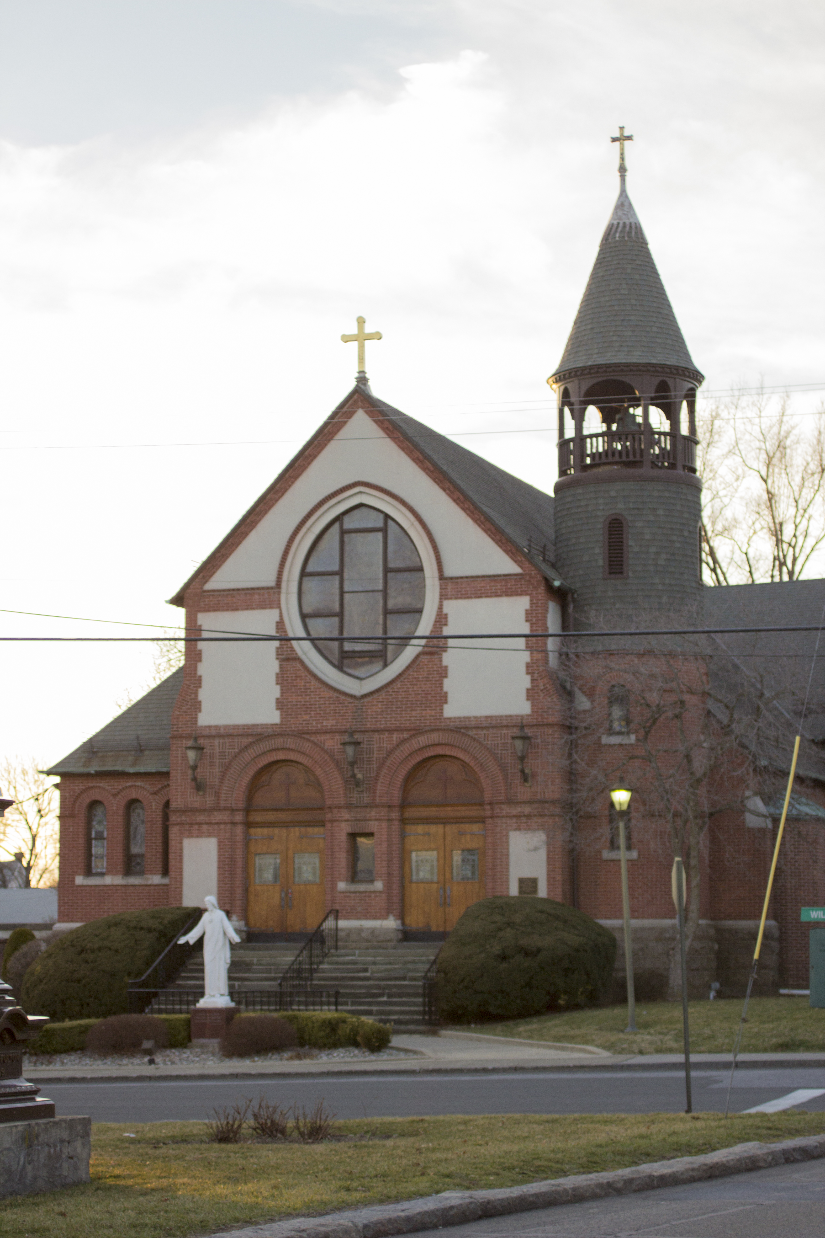 St. Joachim and St. John the Evangelist's Church in Beacon, New York